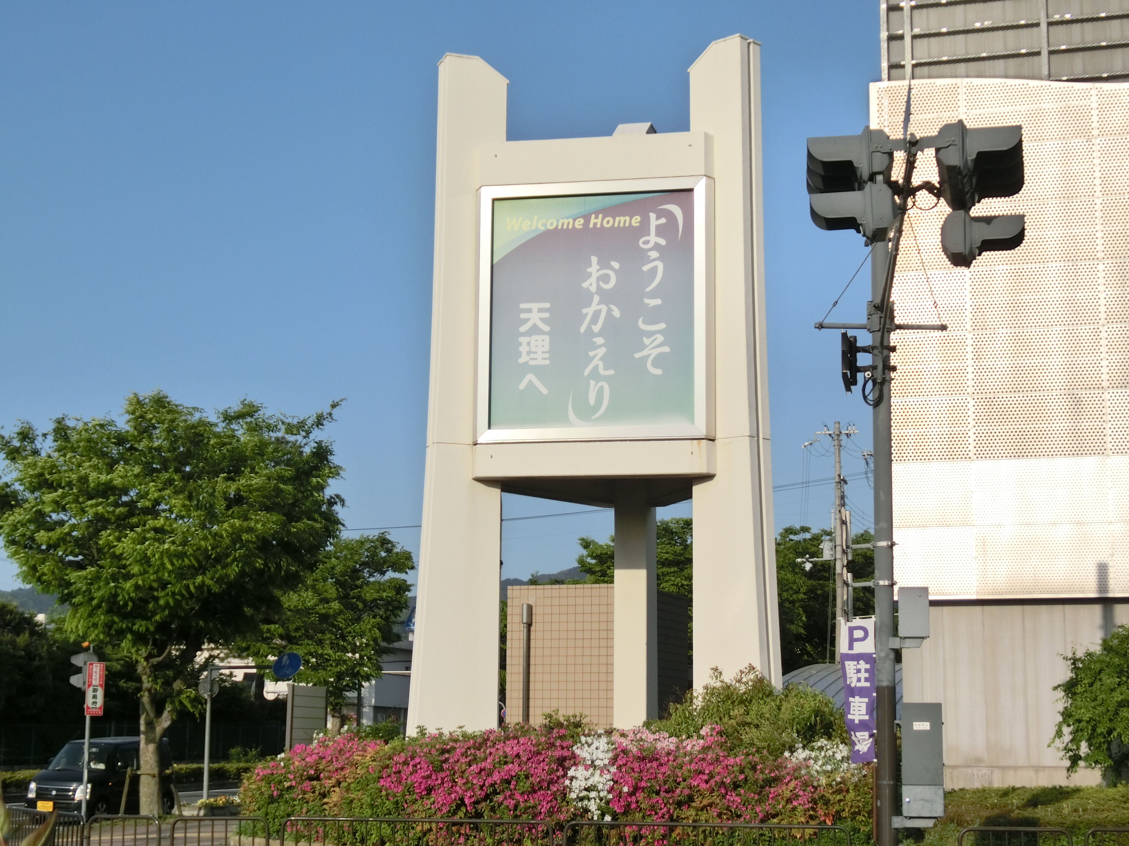 Yokoso-Okaeri Tenri-e sign. "ようこそおかえり天理へ(Yokoso-Okaeri Tenri-e)" marking means "Welcome home to Tenri" in Japanese.